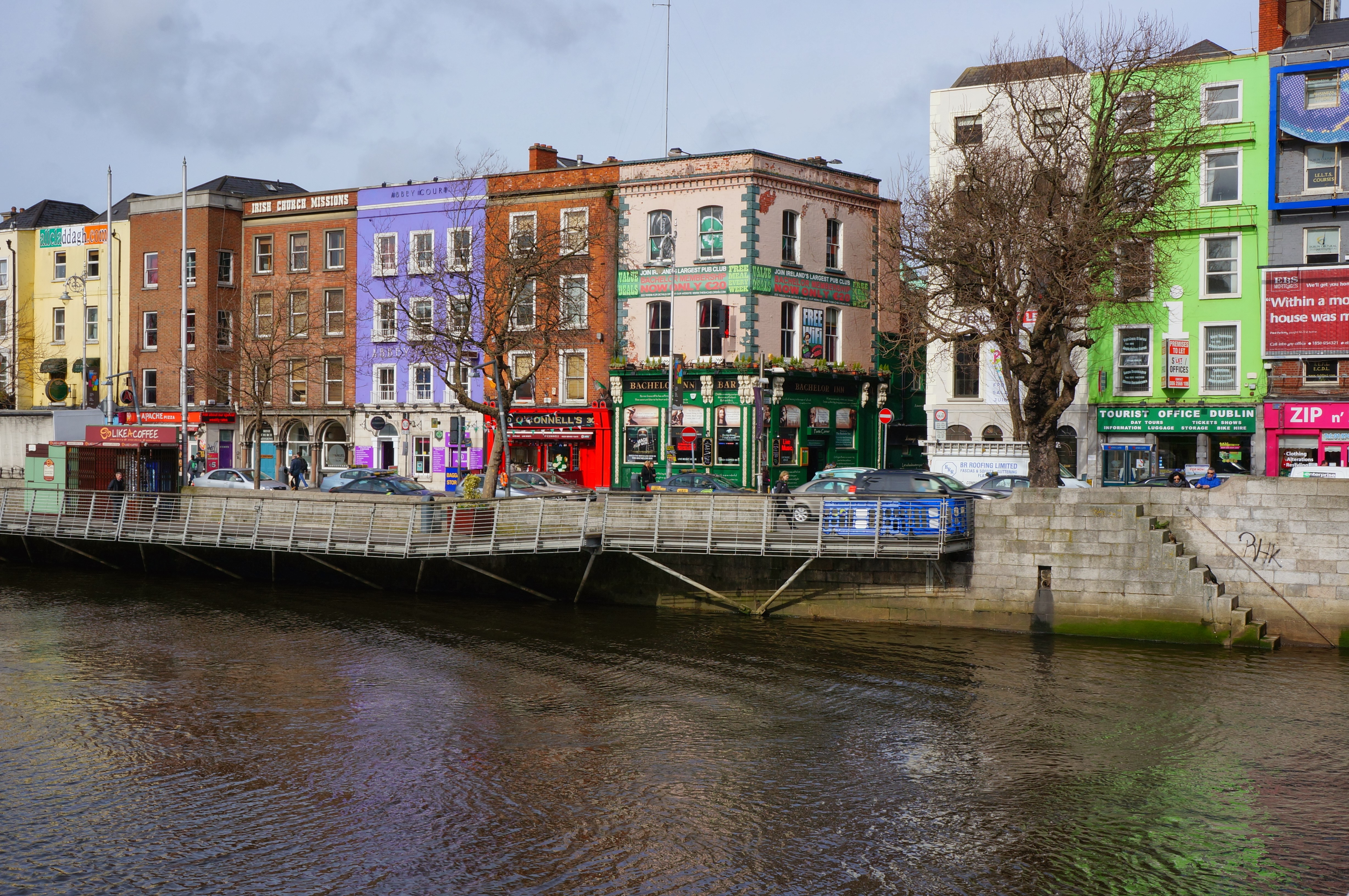 Bachelors Walk